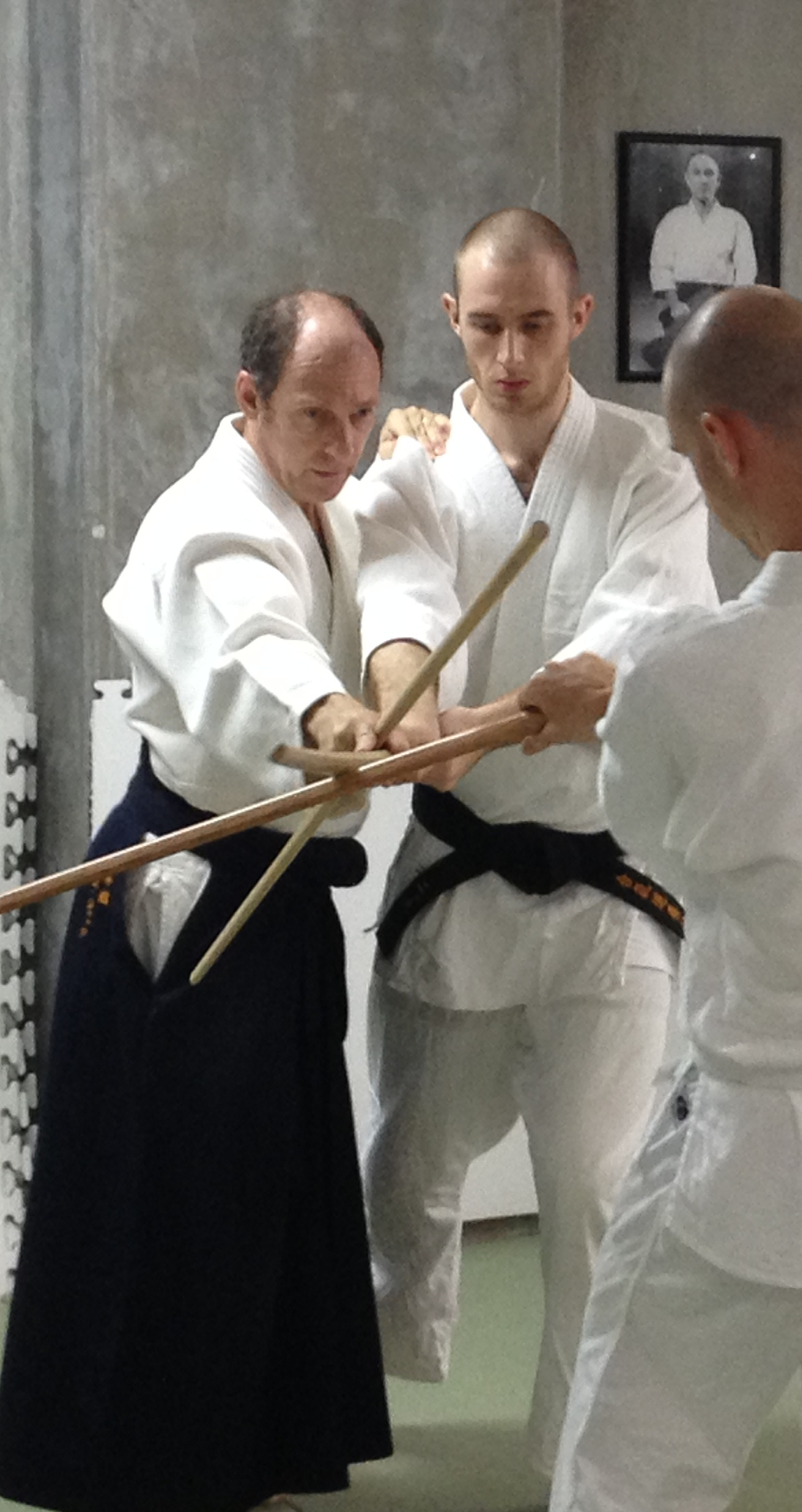 Yoshinkan Aikido Shihan Jacques Payet, 7th-dan, teaches aiki-ken (aikido sword) at Mugenjuku dojo in Kyoto. Photo includes Nick Richardson, 2nd-dan, and Herve LaRuelle.